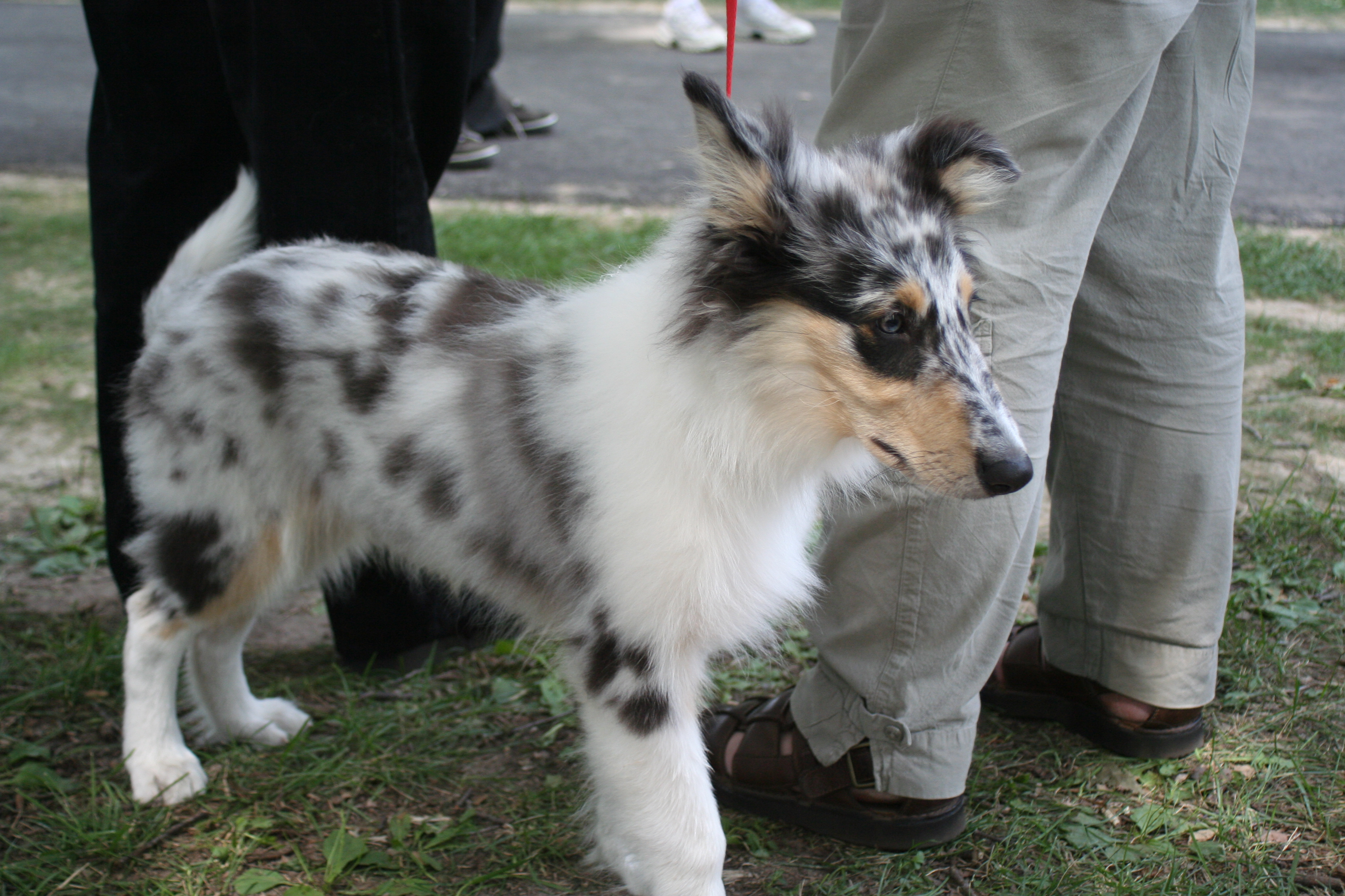 A blue merle Rough Collie puppy.